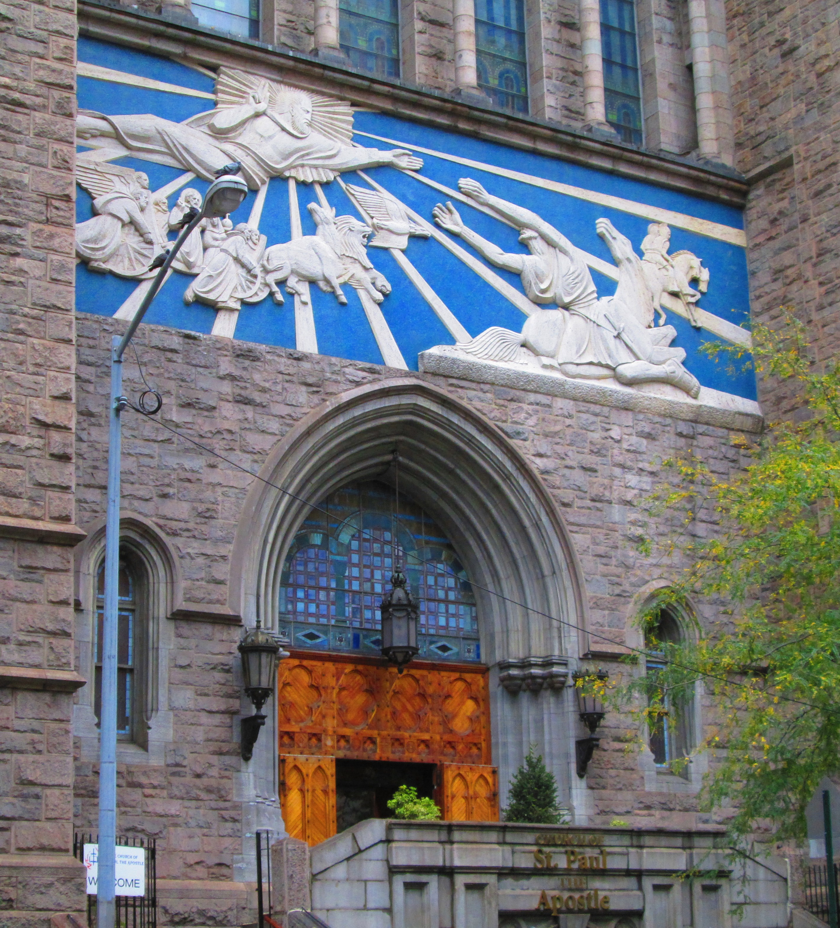 The Roman Catholic Church of St. Paul the Apostle at 10 Columbus Avenue between West 59th and 60th Streets in the Upper West Side neighborhood of Manhattan, New York City, was built in 1876-1884 and was designed by Jeremiah O'Rourke and George Deshon in the Gothic revival style. The home chuch of the Paulist Fathers, it was once the second larges church in the country. The interior includes a baldachin by Stanford White and mosaic floor tiles by Bertram Grosvenor Goodhue. (Source: From Abyssinian to Zion (2004))